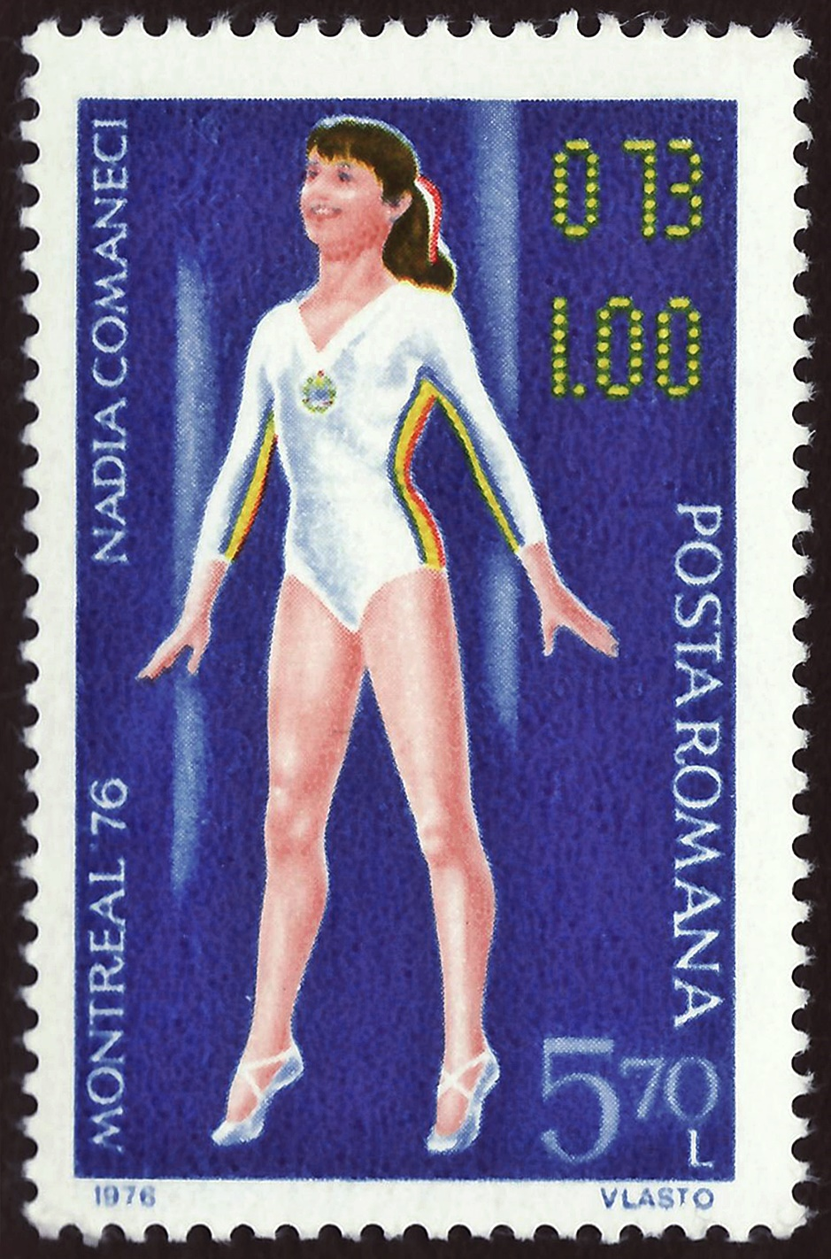 Stamp of Romania; 1976; commemorative stamp of the issue "Gold Medal Winners at the XXIth Olympic Summer Games, 1976 in Montreal"; stamp motive with a drawing of the Romanian femal gymnast Nadia Comăneci (won at the Olympic Games in Montreal: 3 Gold, 1 Silver, and 1 Bronze medal); mint stamp Stamp: Michel: No. 3378; Yvert & Tellier: No. 2990; Scott: No. 2656 Color: multicolored (dark blue dominating) Watermark: none Nominal value: 5.70 L (Lei) Postage validity: from 20 October 1976 until ? Stamp picture size (printed area of a single stamp without signature line): 23.0 x 37.5 mm